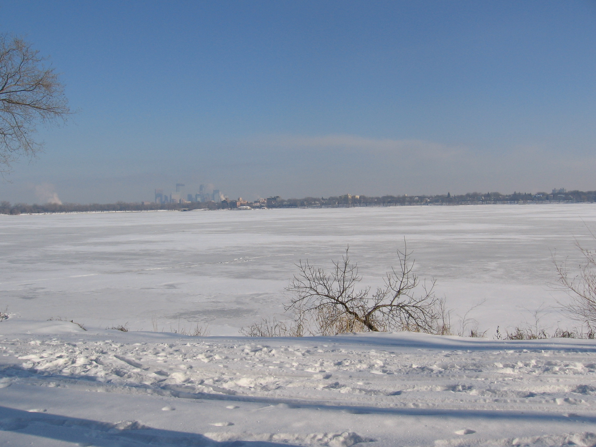 Lake Calhoun during the winter with the Minneapolis skyline in the background.